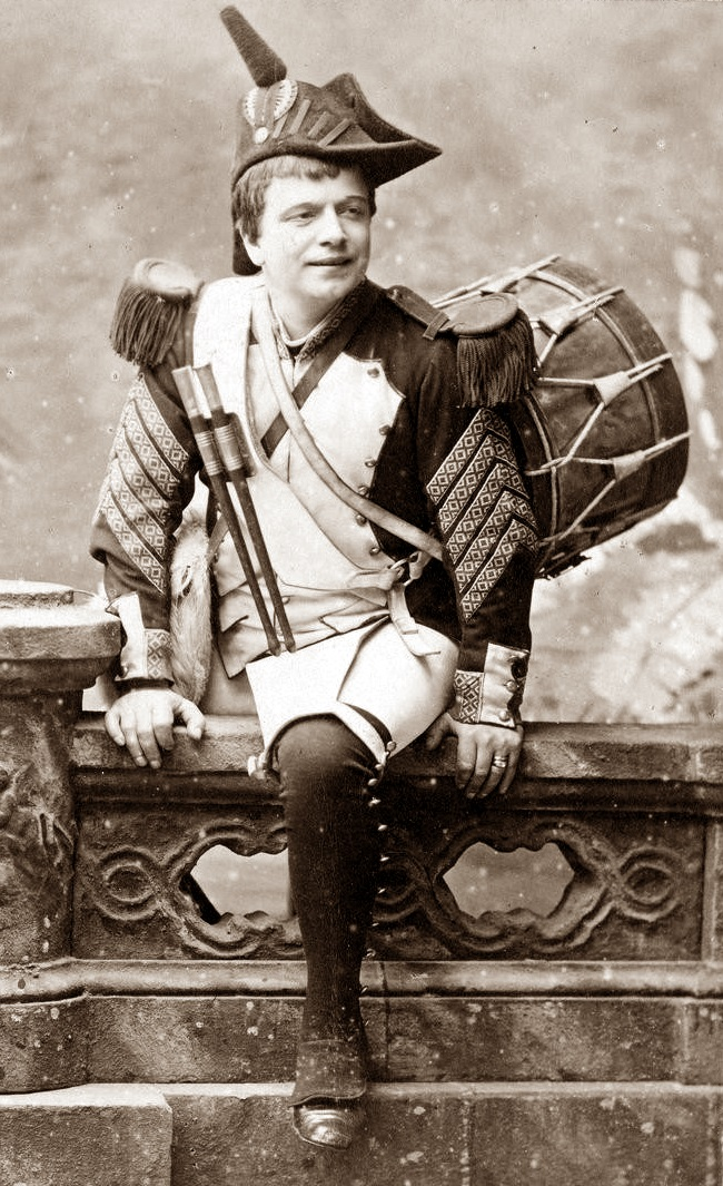 Simon-Max in original production of La fille du tambour-major